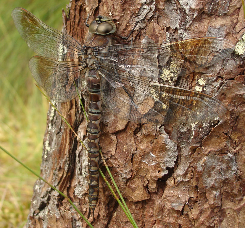 Female of Aeshna Crenata, taken in Russia, near Kanneljarvi